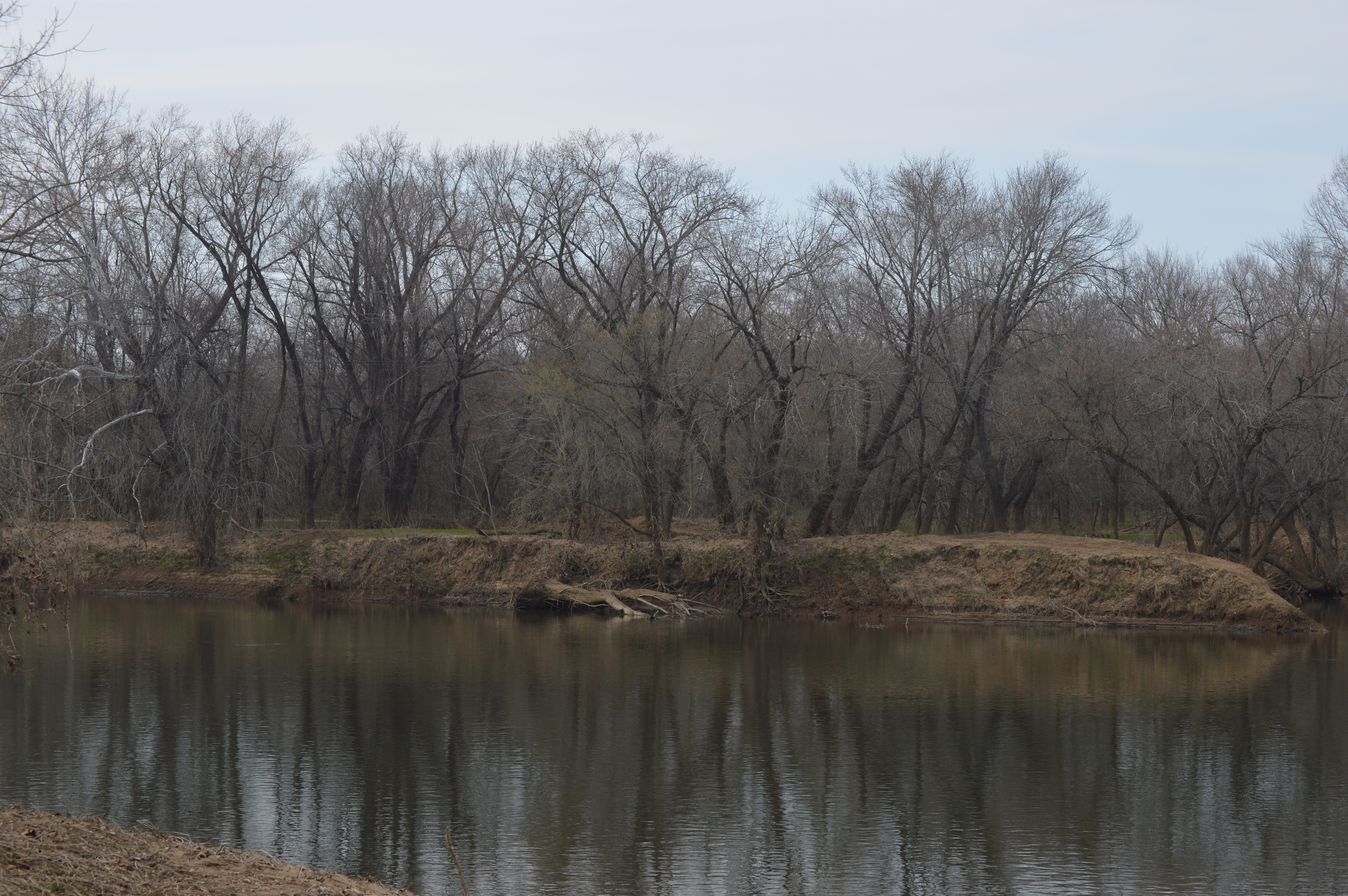 Overview from the south of the site of the Point of Fork Arsenal, located at the confluence of the James and Rivanna Rivers at Columbia in Fluvanna County, Virginia, United States. Used as an arsenal in the 1770s, it is listed on the National Register of Historic Places.